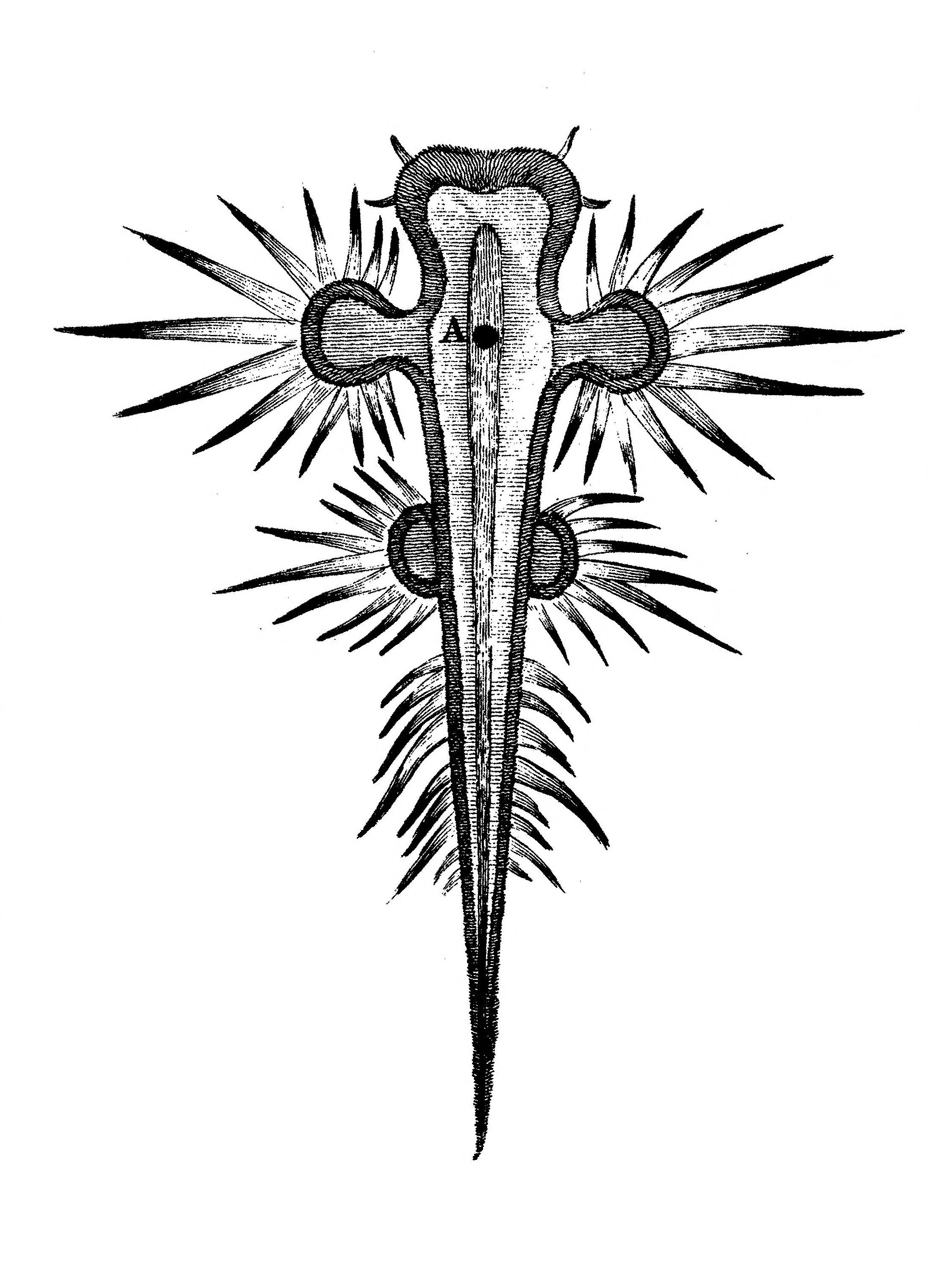 Glaucus atlanticus